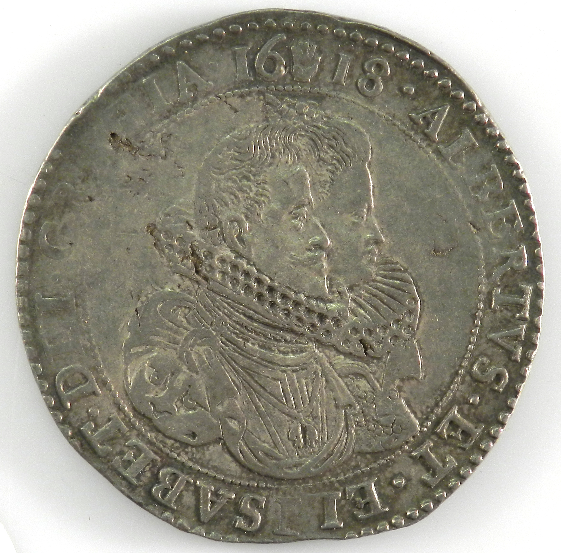 Obverse (front) of a Ducaton of Albert VII Archduke of Austria, showing paired bust of Albert VII and Isabella Clara Eugenia . Of type: Van Gelder and Hoc 309.1. From Pot B of the Middleham Hoard